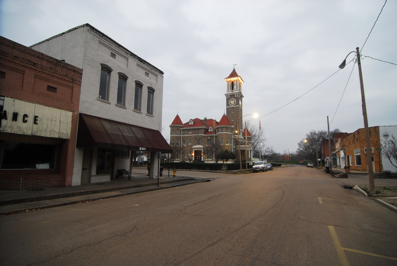 Mostly abandoned downtown Clarendon. While there, 2 buildings were being torn down, and a few more in their small downtown were slated to be torn down this year (2011). Most small towns in eastern and southern Arkansas have mostly abandoned downtowns, and its no stretch of the imagination to say that within 40 years, nothing will be left of any of their historic downtowns, except maybe a courthouse.